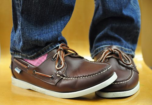 Brown Pair of Sperry Docksiders